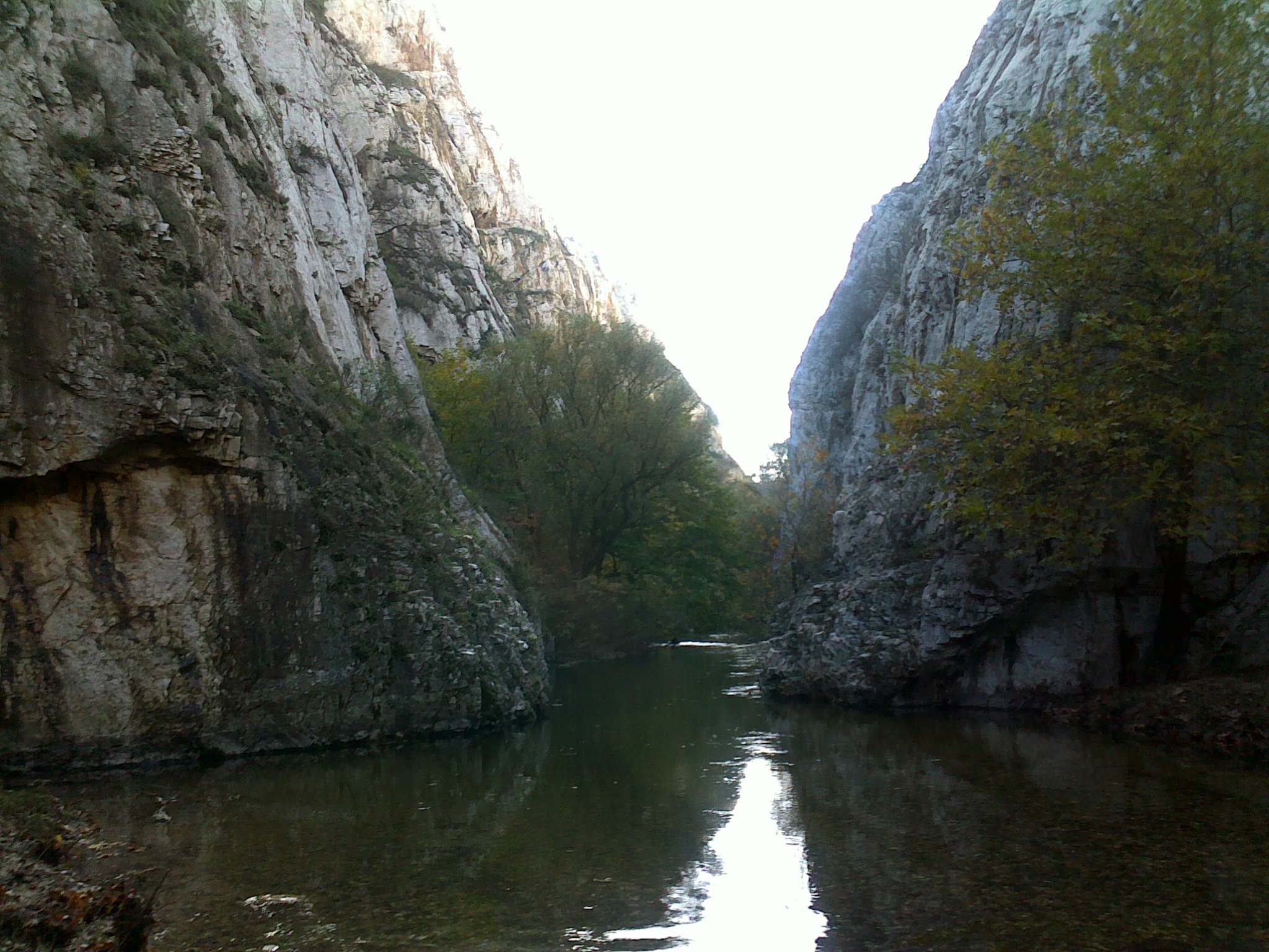 River Babuna in the Peshti gorge, near Veles, Macedonia